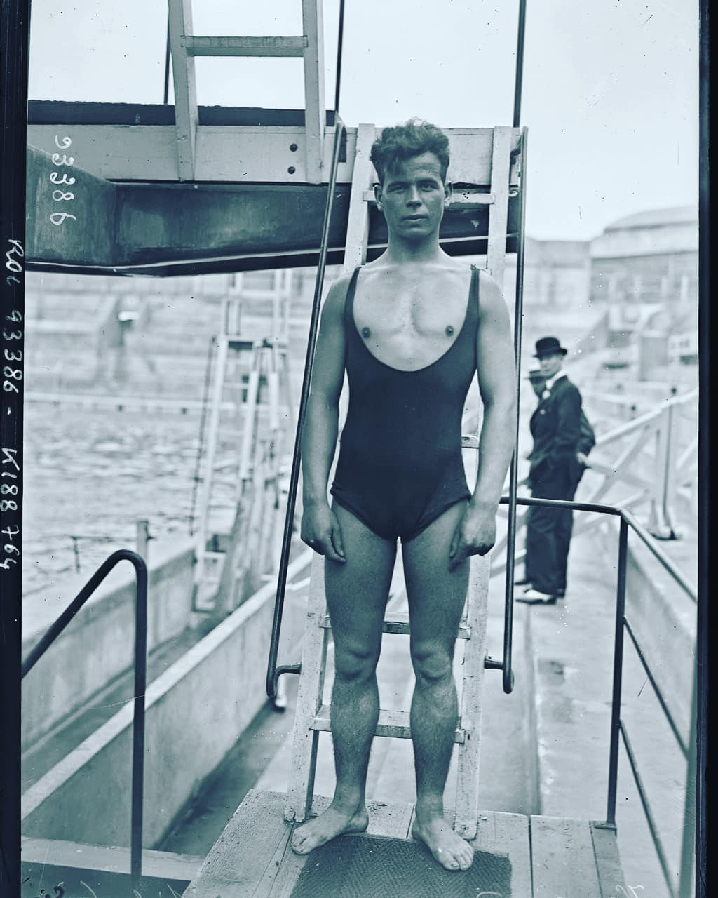 Finnish diver Hannes Kärkkäinen (1902-1938) at the 1924 Summer Olympics in Paris.